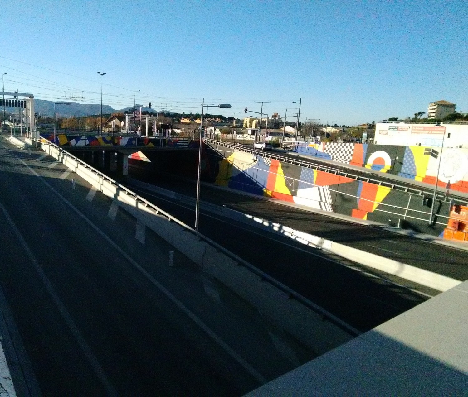 A507 - échangeur des Faïenciers